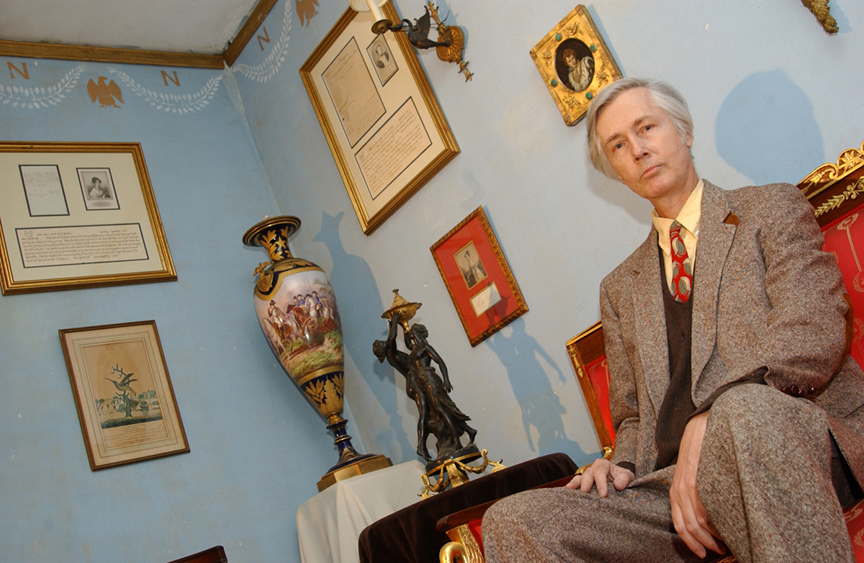 Picture of Terrance Lindall in his office.